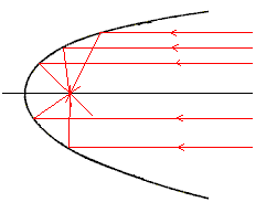 A parabolic mirror